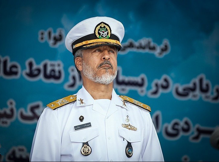 Amir Commodore Sardar Habibollah Sayyari the commander of the Iranian regular Navy of the Islamic Republic of Iran Army during the Army commander trip to Bandar Abbas